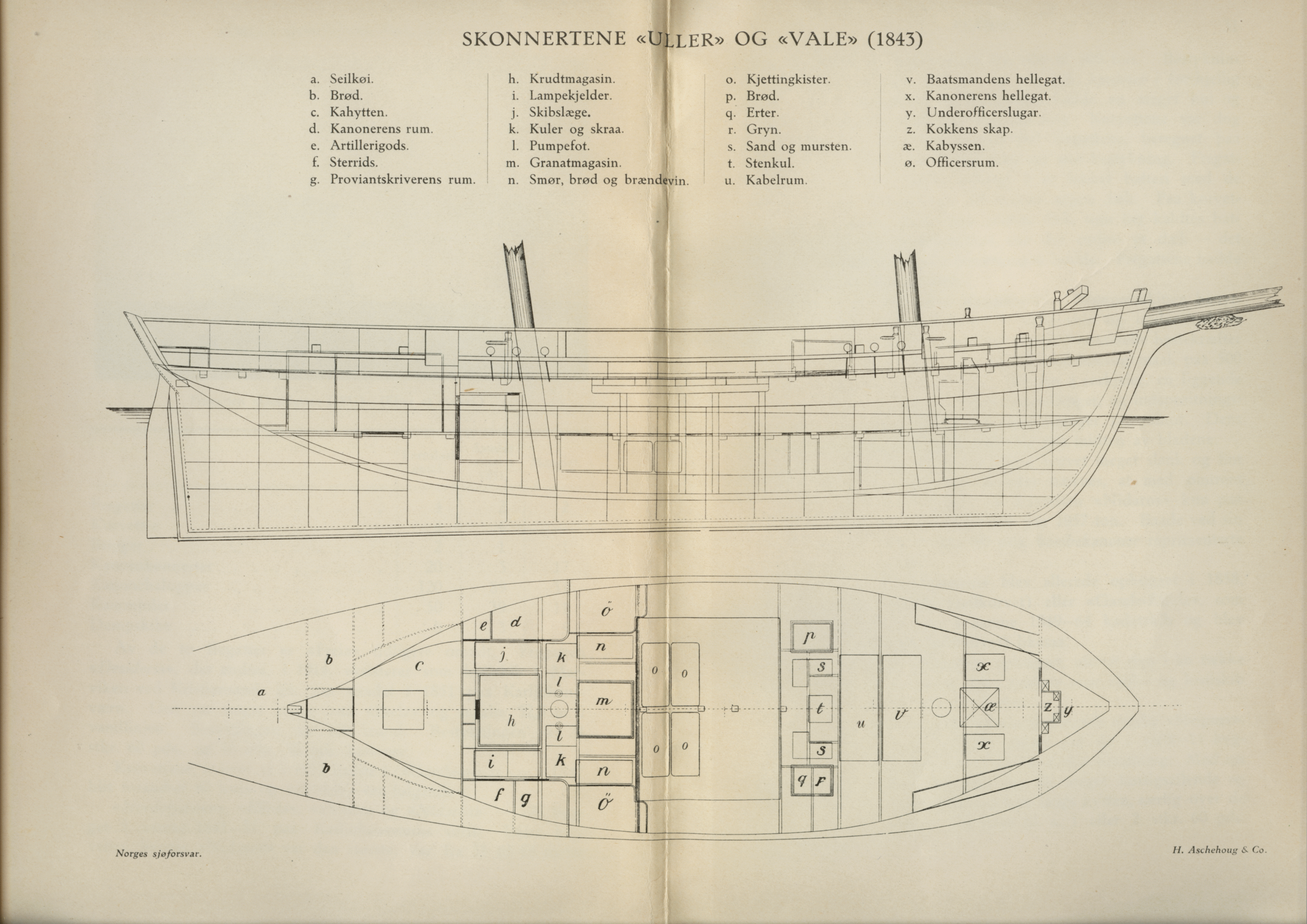 Drawing of schooners Uller and Vale, constructed for the Norwegian Navy and delivered in 1845 and 1843.